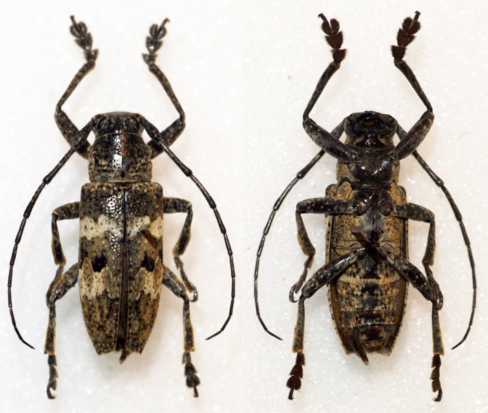 Abryna grisescens mounted